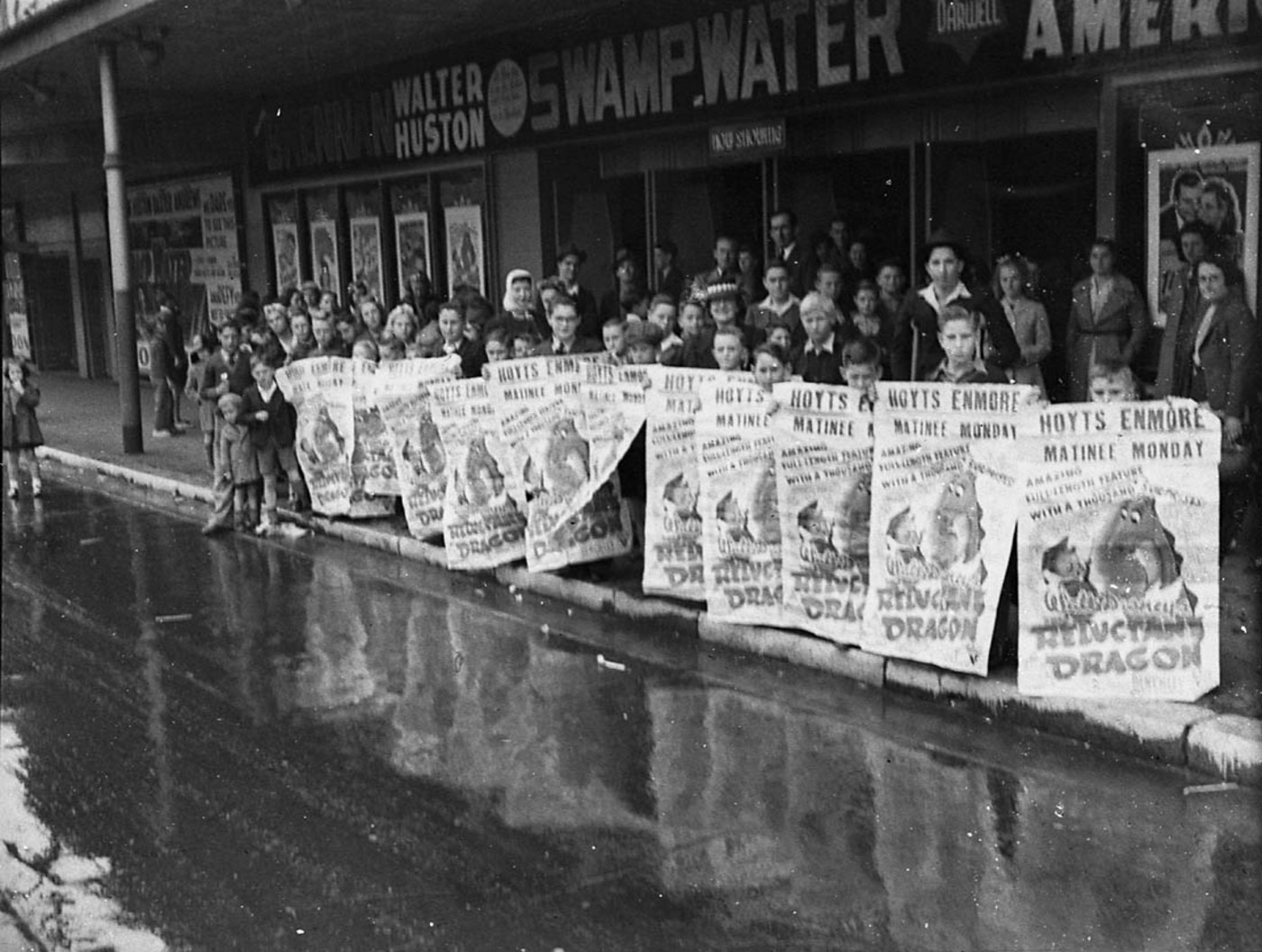 Children hold posters advertising Walt Disney's "Reluctant dragon", Enmore Theatre